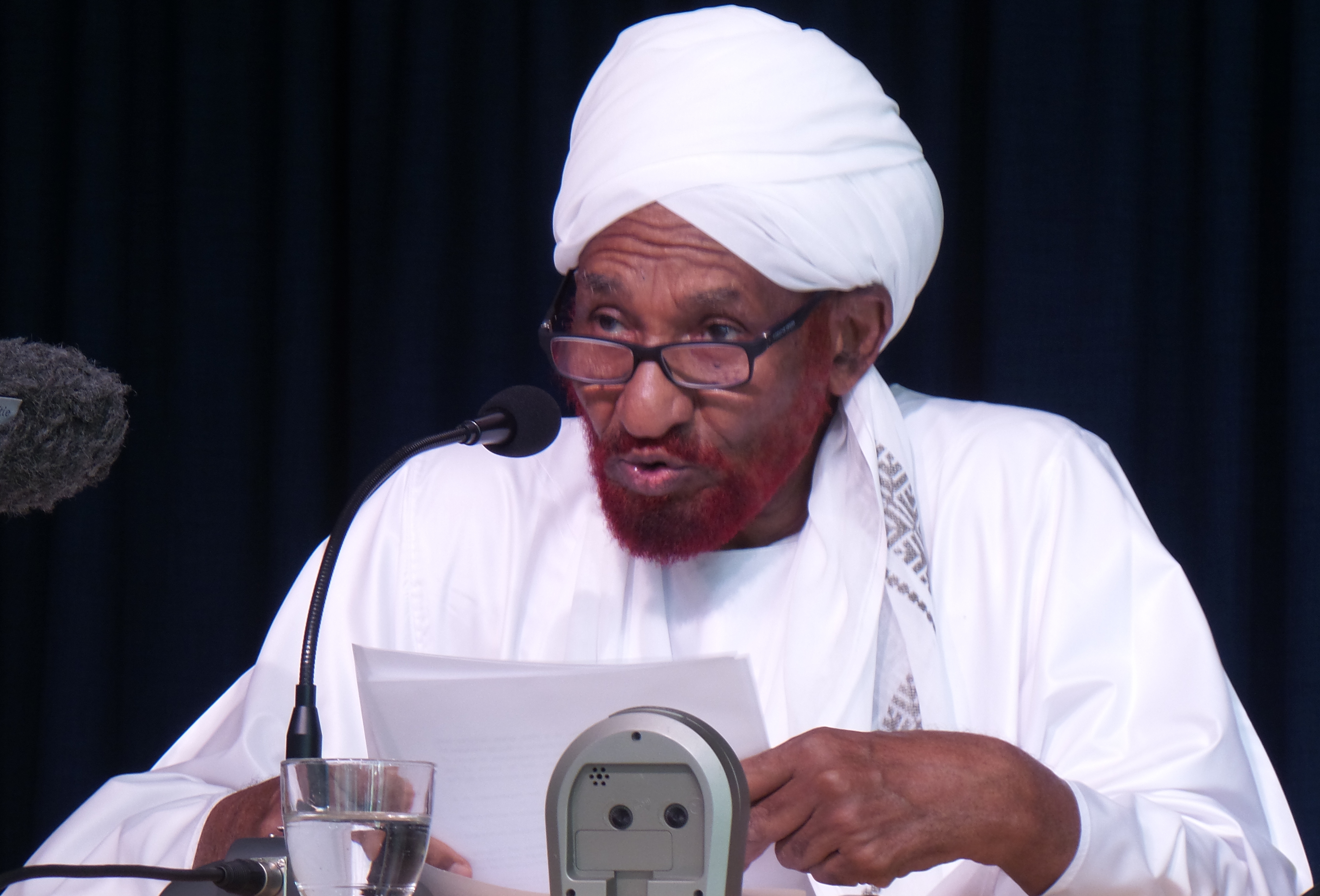 Former Prime Minister of Sudan and leader of the Umma party, Sadiq Al Mahdi, in June 2015 at the annual Sudan & South Sudan Conference in Hermannsburg, Germany.